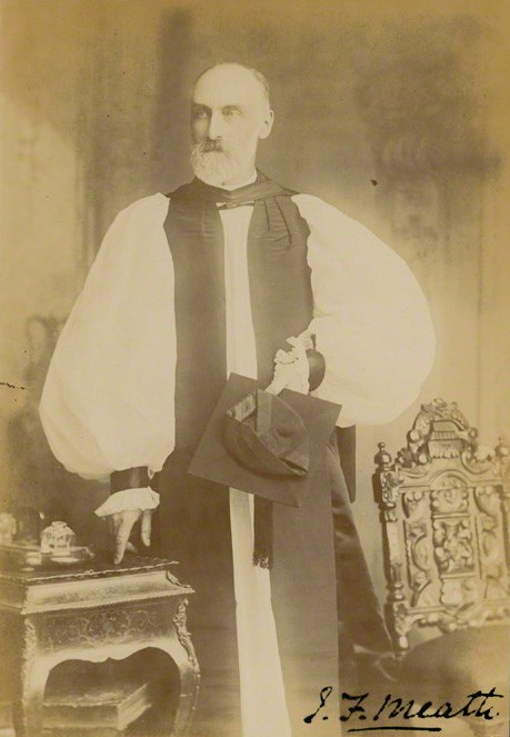 Signed photograph of Joseph Ferguson Peacocke, Bishop of Meath (subsequently Archbishop of Dublin)